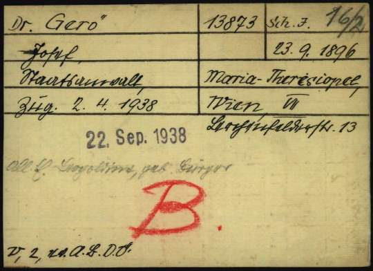 Registration card of Josef Gerö as a prisoner at Dachau Nazi Concentration Camp. The red “B.” penciled on the bottom indicates Gerö's transfer to Buchenwald.